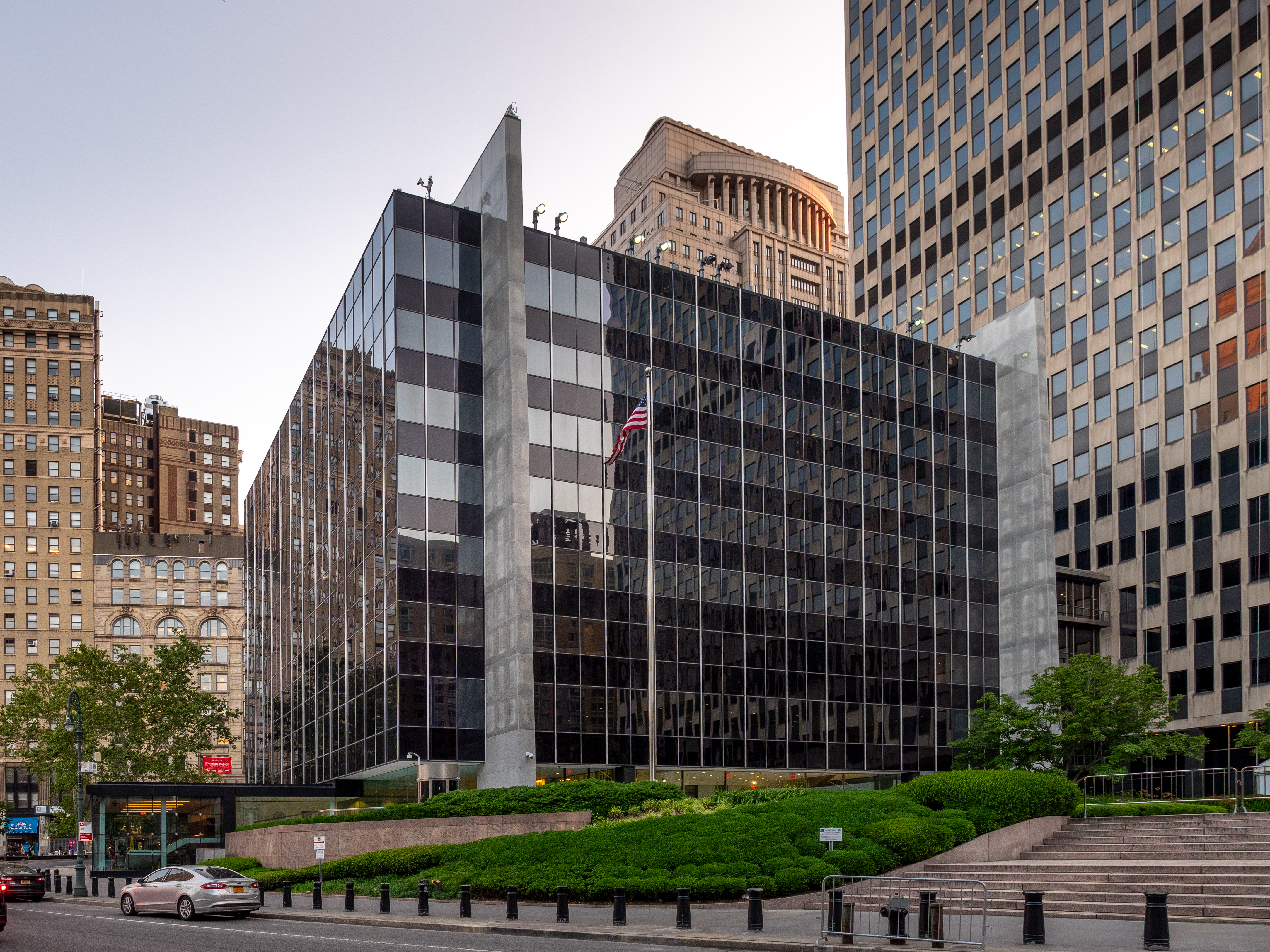 Civic Center, Manhattan, NYC